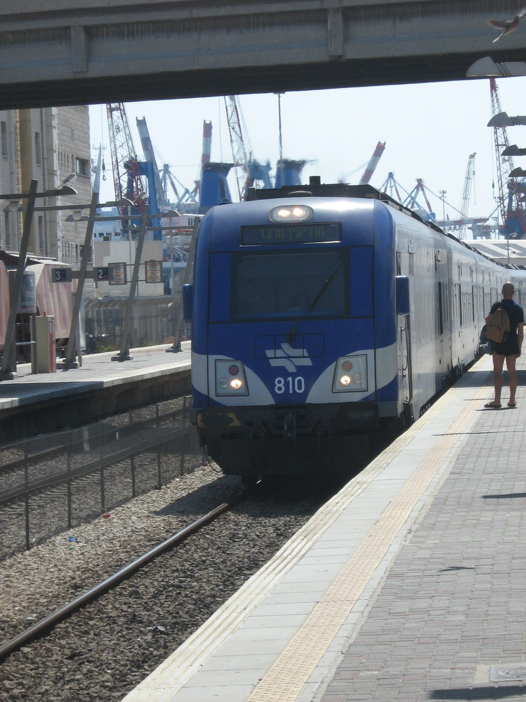 Haifa Merkaz HaShmona - Haifa Central Railway Station, platform 1, view to the east